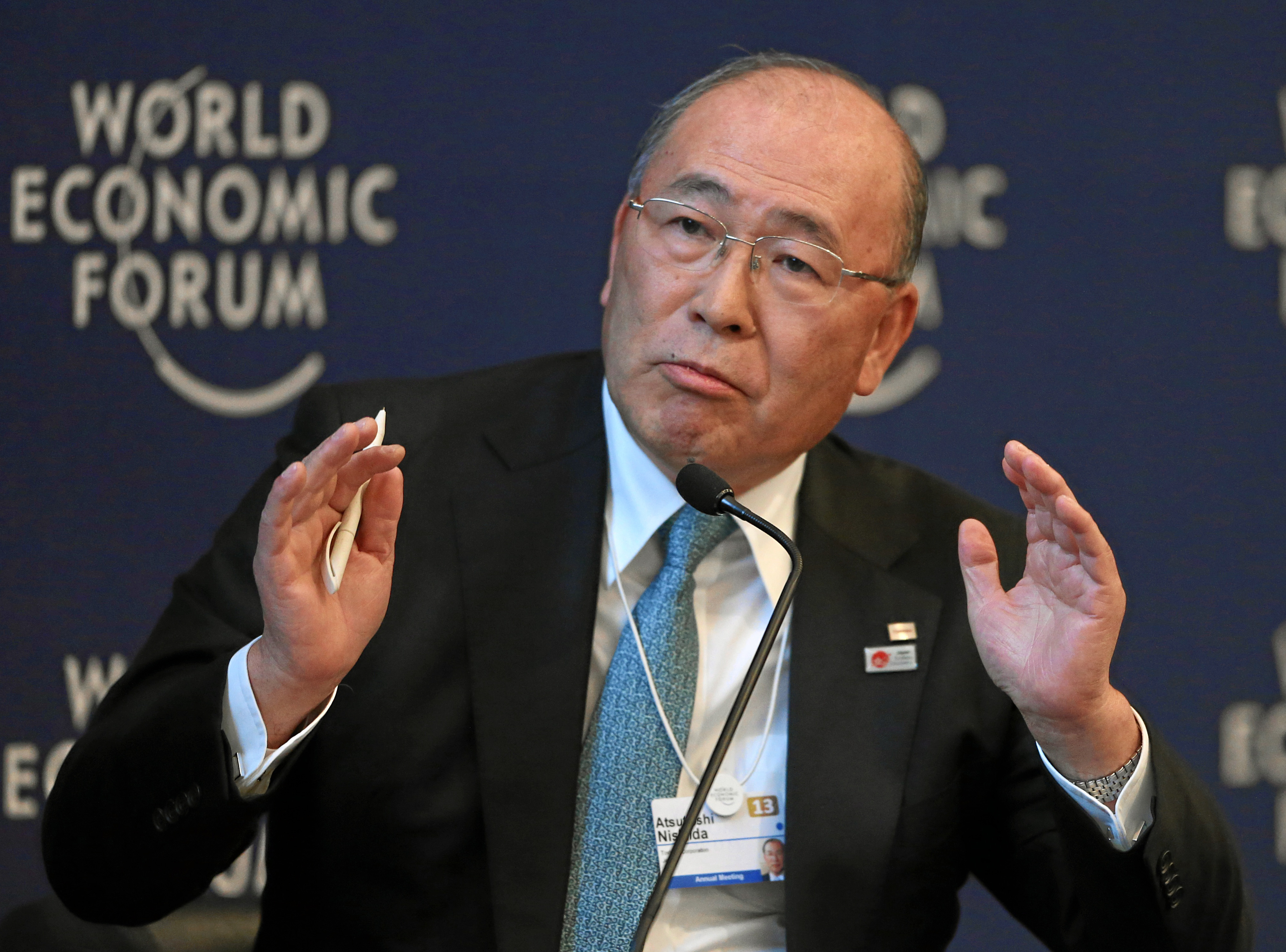 Atsutoshi Nishida, Chairman of the Toshiba Corporation, spoke about the "Unconventional Energy -- Sustaining Natural Resources" at the Annual Meeting of the World Economic Forum in Davos Municipality, Graubünden Canton on January 24, 2013.